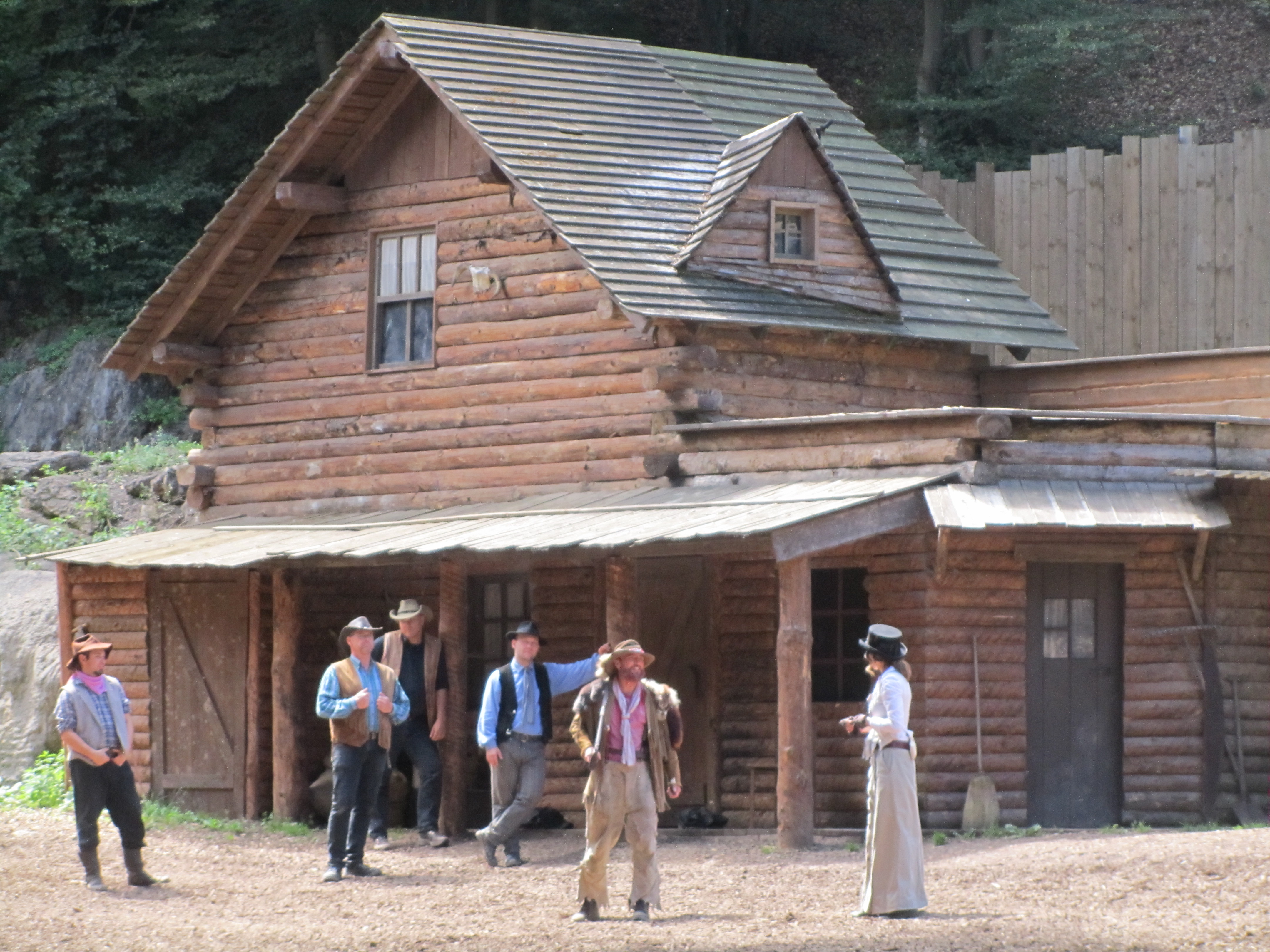 a scene in front of the saloon during the play "Der Schatz im Silbersee" at the Karl May festival in Elspe, Germany